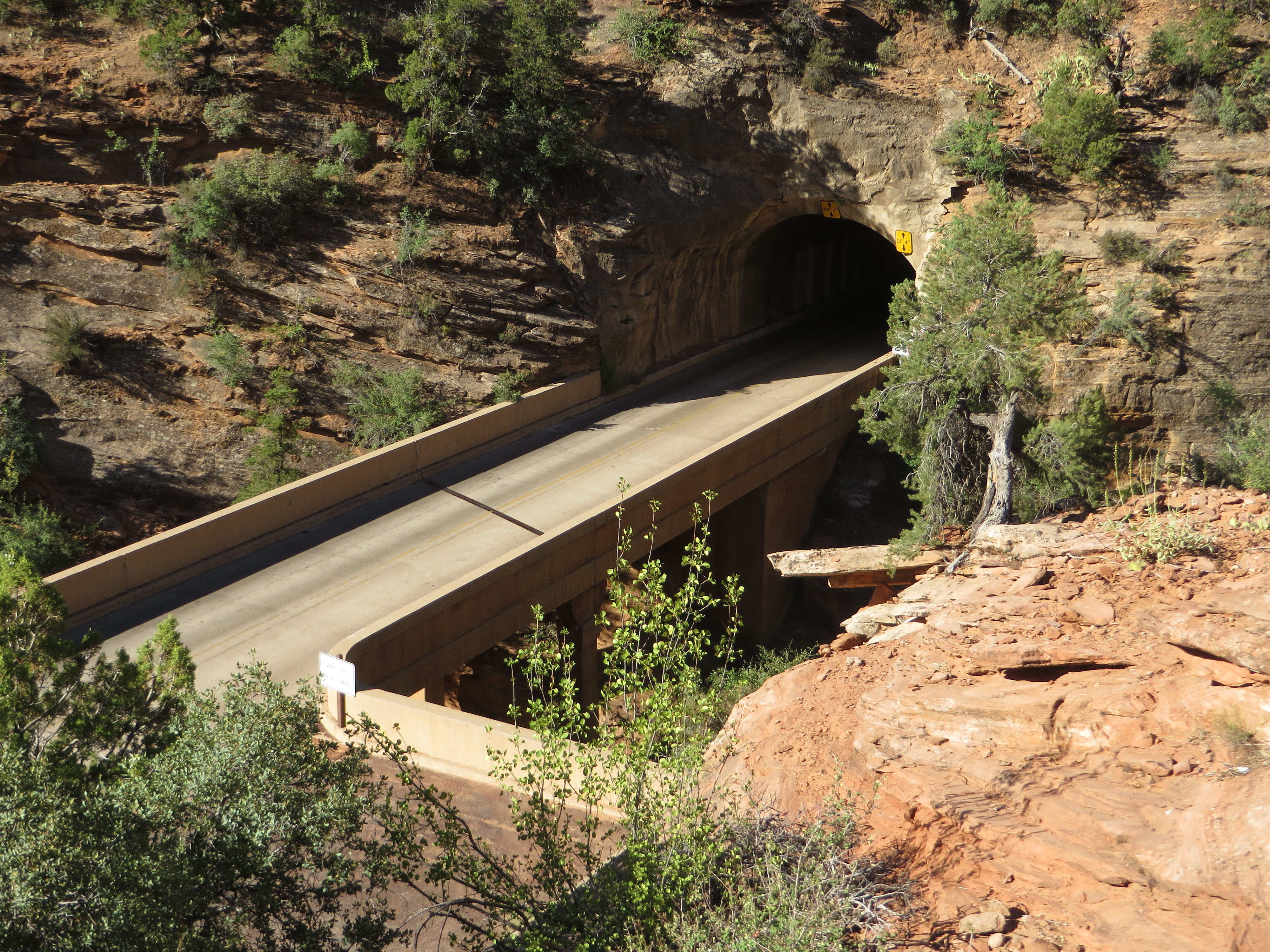 Utah State Route 9 at the eastern entrance to the Zion-Mount Carmel tunnel